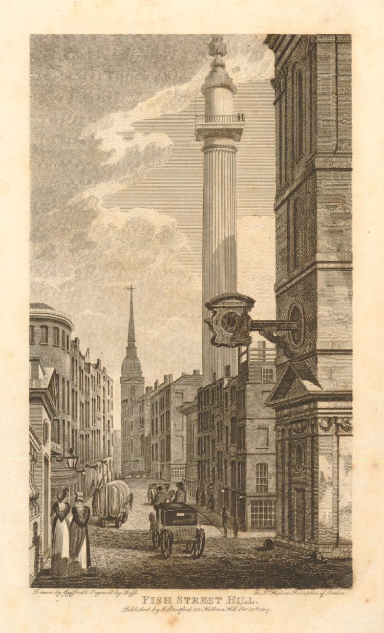 Fish Stret Hill engraved by John Roffe after Edward Gyfford